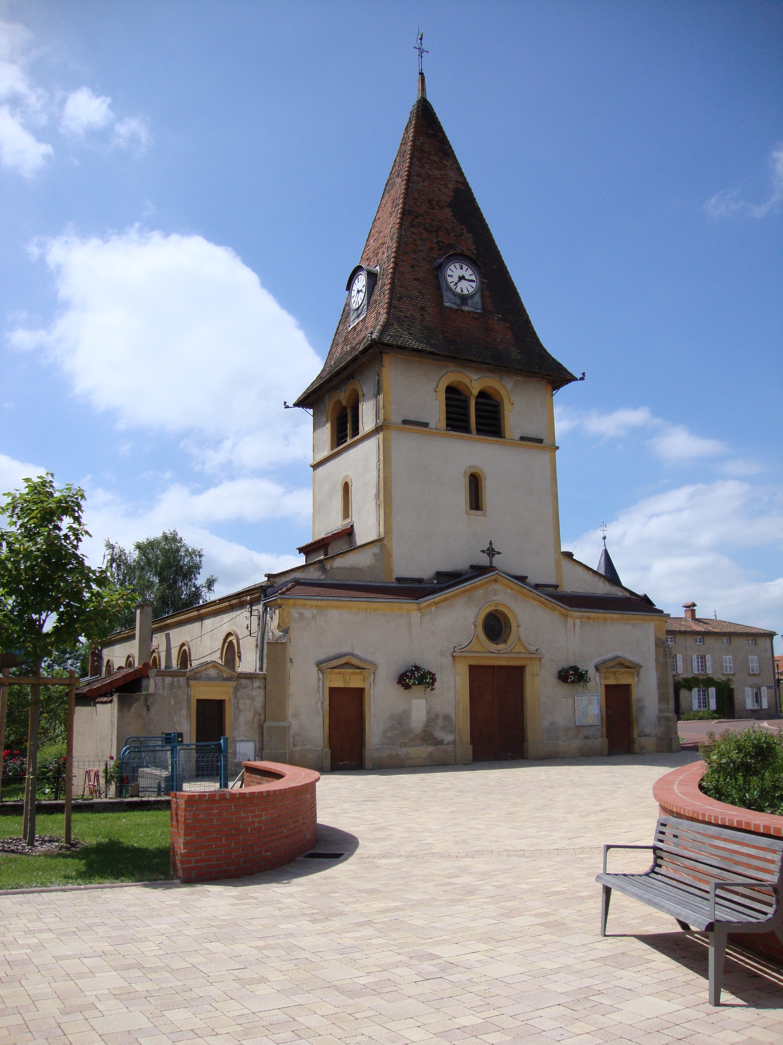 Pouilly-sous-Charlieu (Loire-Fr) church